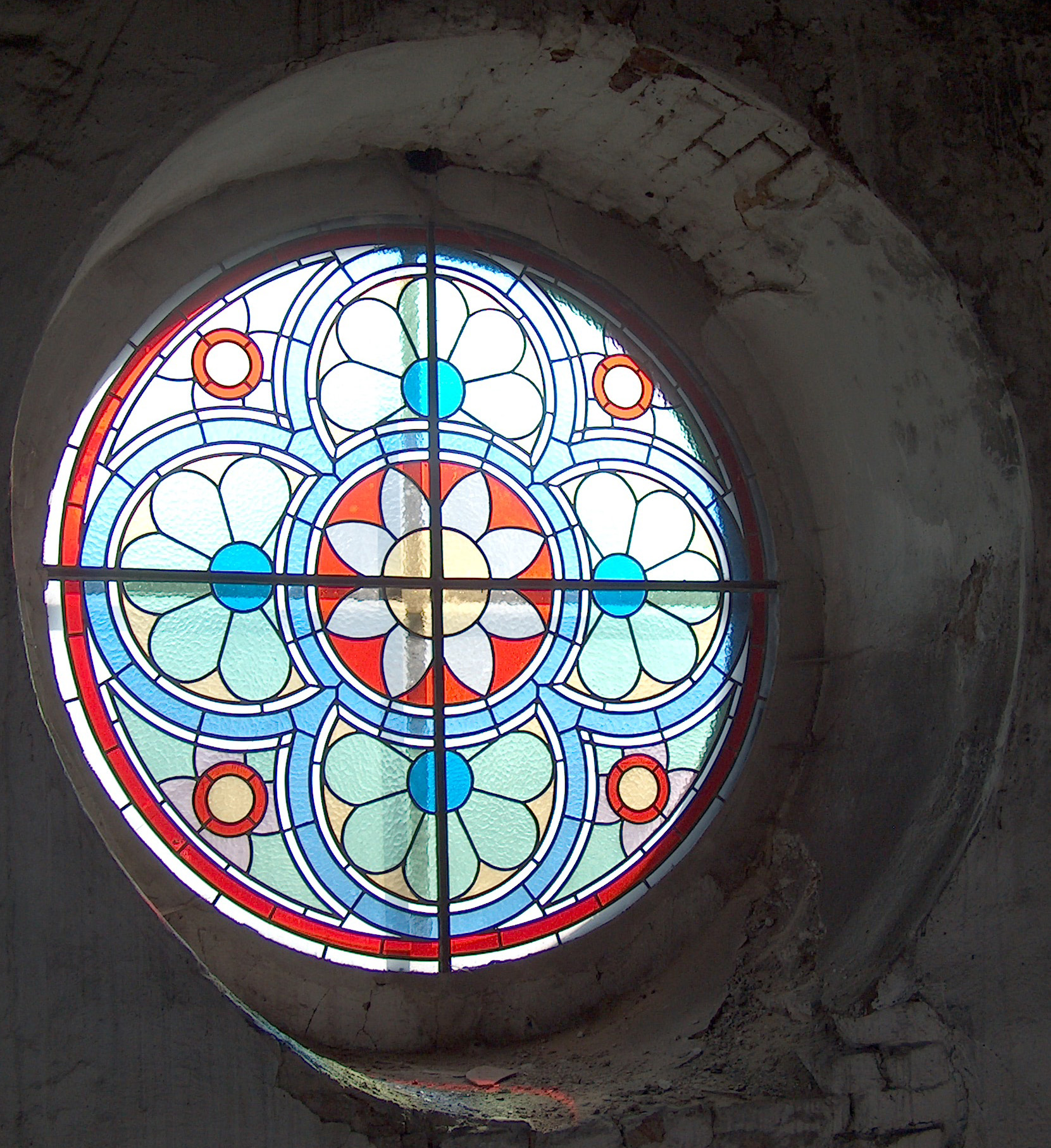 Stained glass on tower Our Savior Lutheran Church in Szopienice.